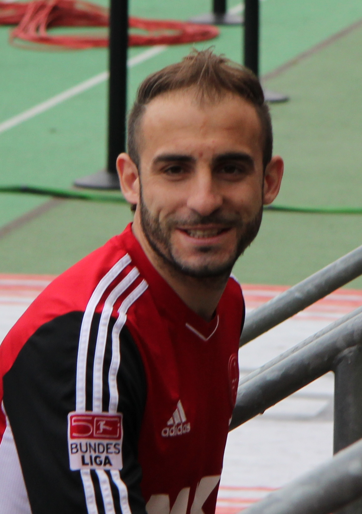 Javier Pinola, football player for German side 1. FC Nürnberg, 2012/13 season